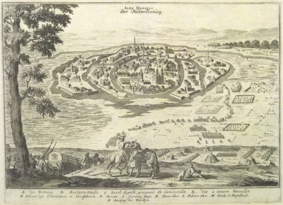 Székesfehérvar = Stuhlweißenburg = Alba Regalis in 1601 after the interim reconquest by Christian troops, printed in a 1667 edition of Theartrum Europaeum